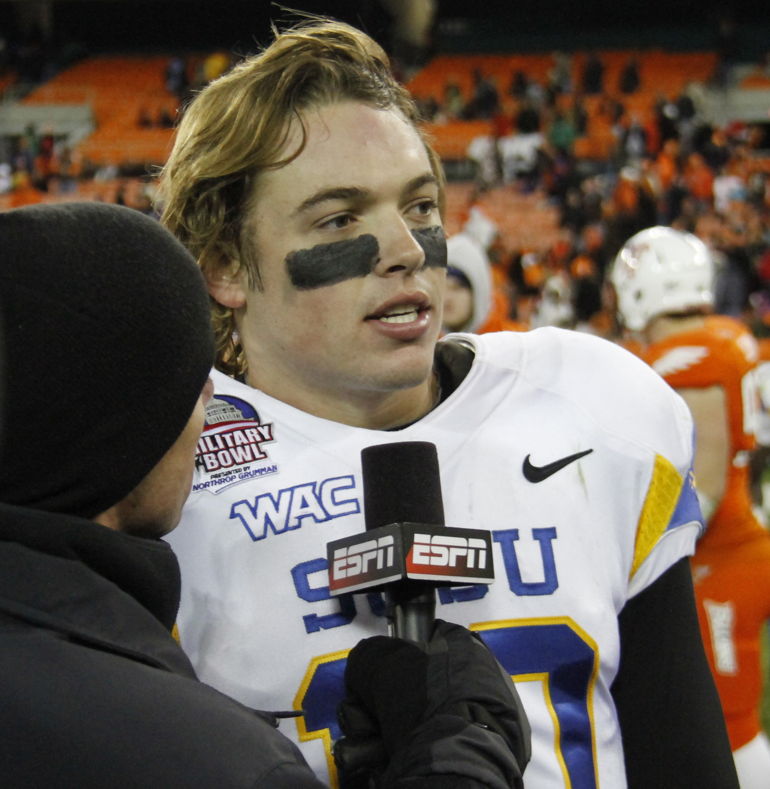 An ESPN reporter interviews San Jose State quarterback David Fales after San Jose State's win in the 2012 Military Bowl.